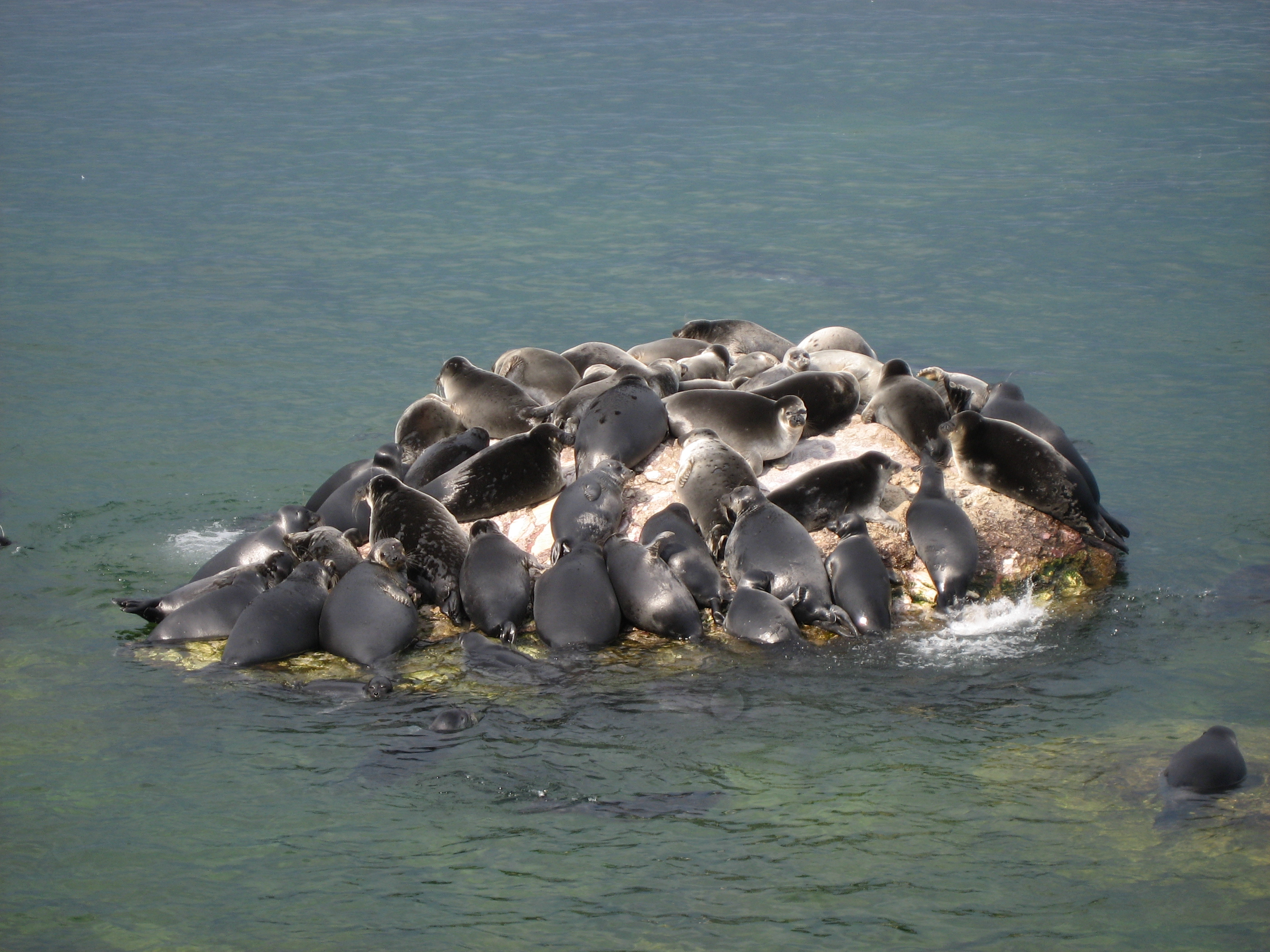 Freshwater seals on Lake Baikal. Nerpas on Lake Baikal